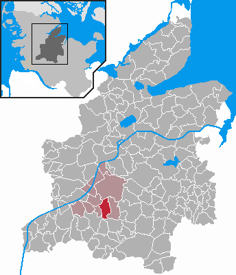 Locator maps of municipalities in Schleswig-Holstein - District Rendsburg-Eckernförde